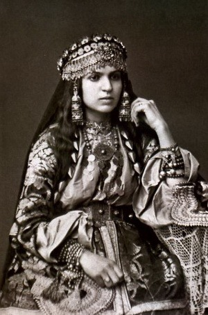 Young Armenian girl from Shamakhi